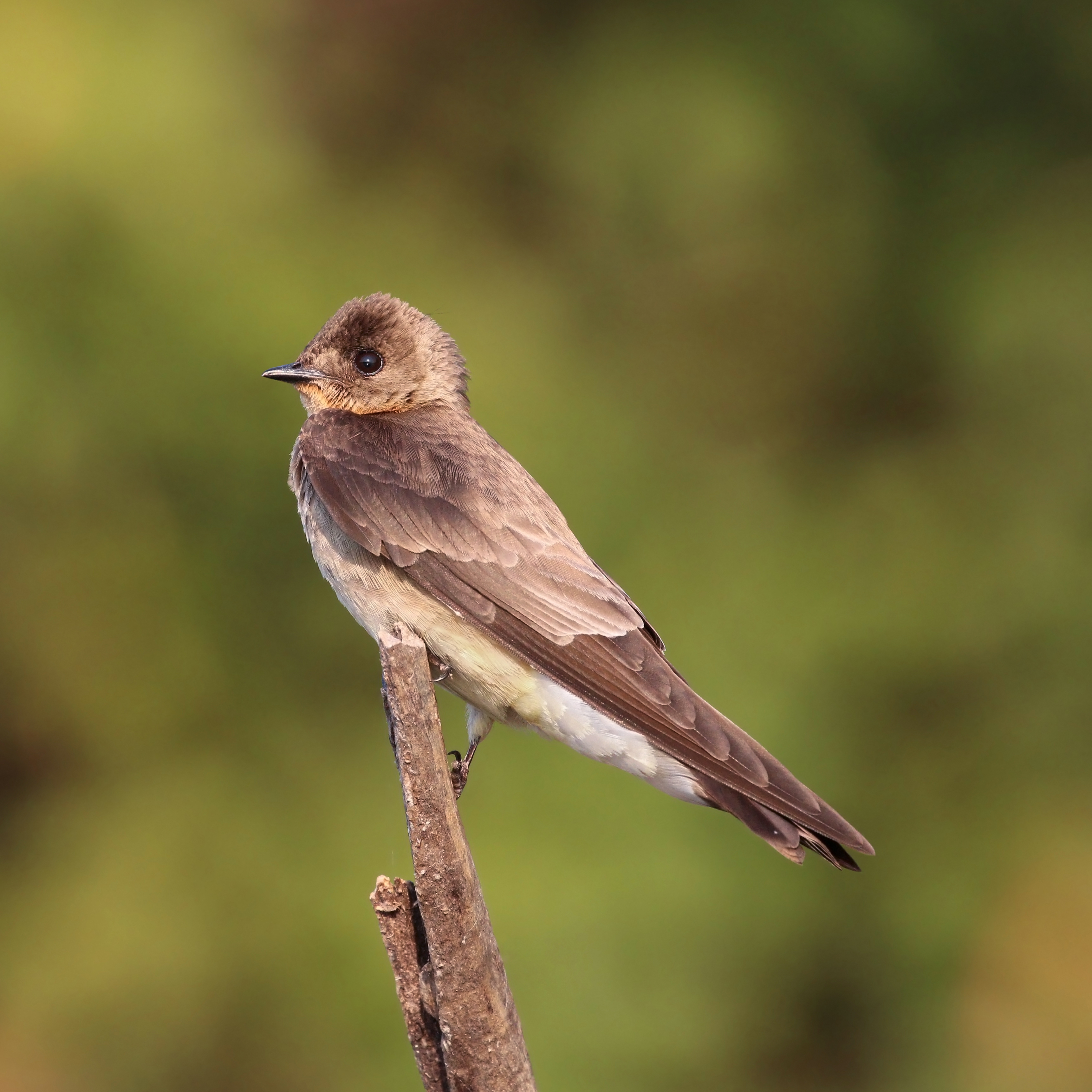 Southern rough-winged swallow (Stelgidopteryx ruficollis ruficollis), the Pantanal, Brazil